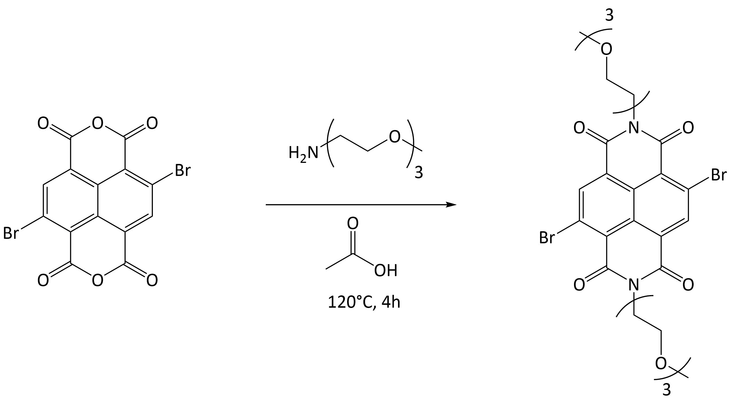 Synthesis of Br2-NDI2TEG